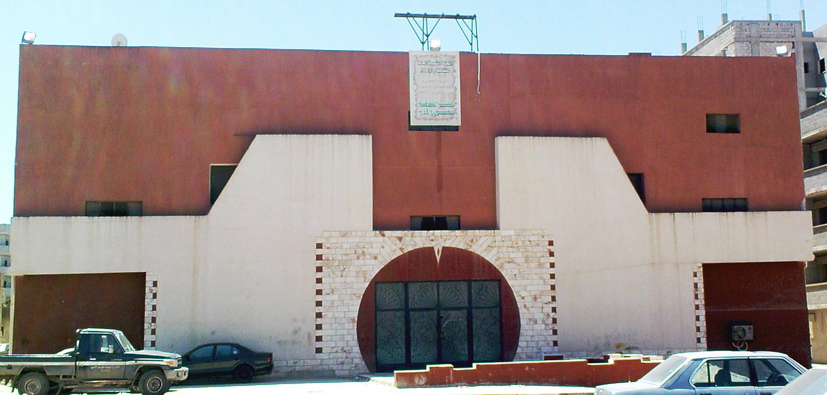 Palace of Culture of Libya in Al Bayda City